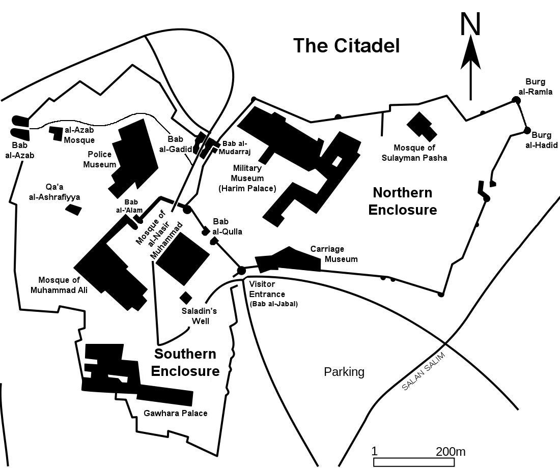 Map of the layout and important sites of the Citadel today.